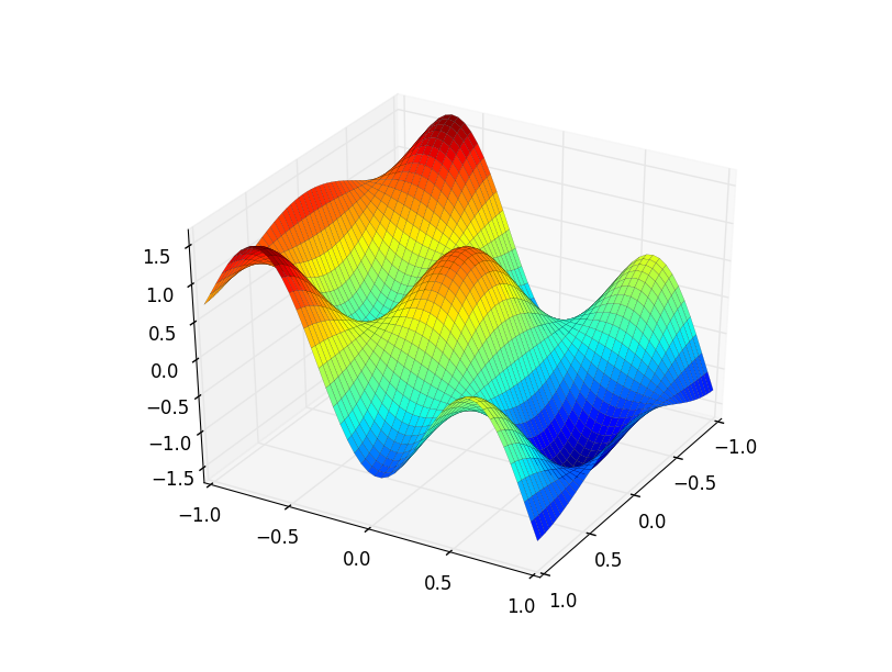 Simple plot created with SymPy to illustrate plotting. (The filename "screenshot" was chosen before going through the details of wikipedia uploading; it is rather the output of the program than a screenshot.)